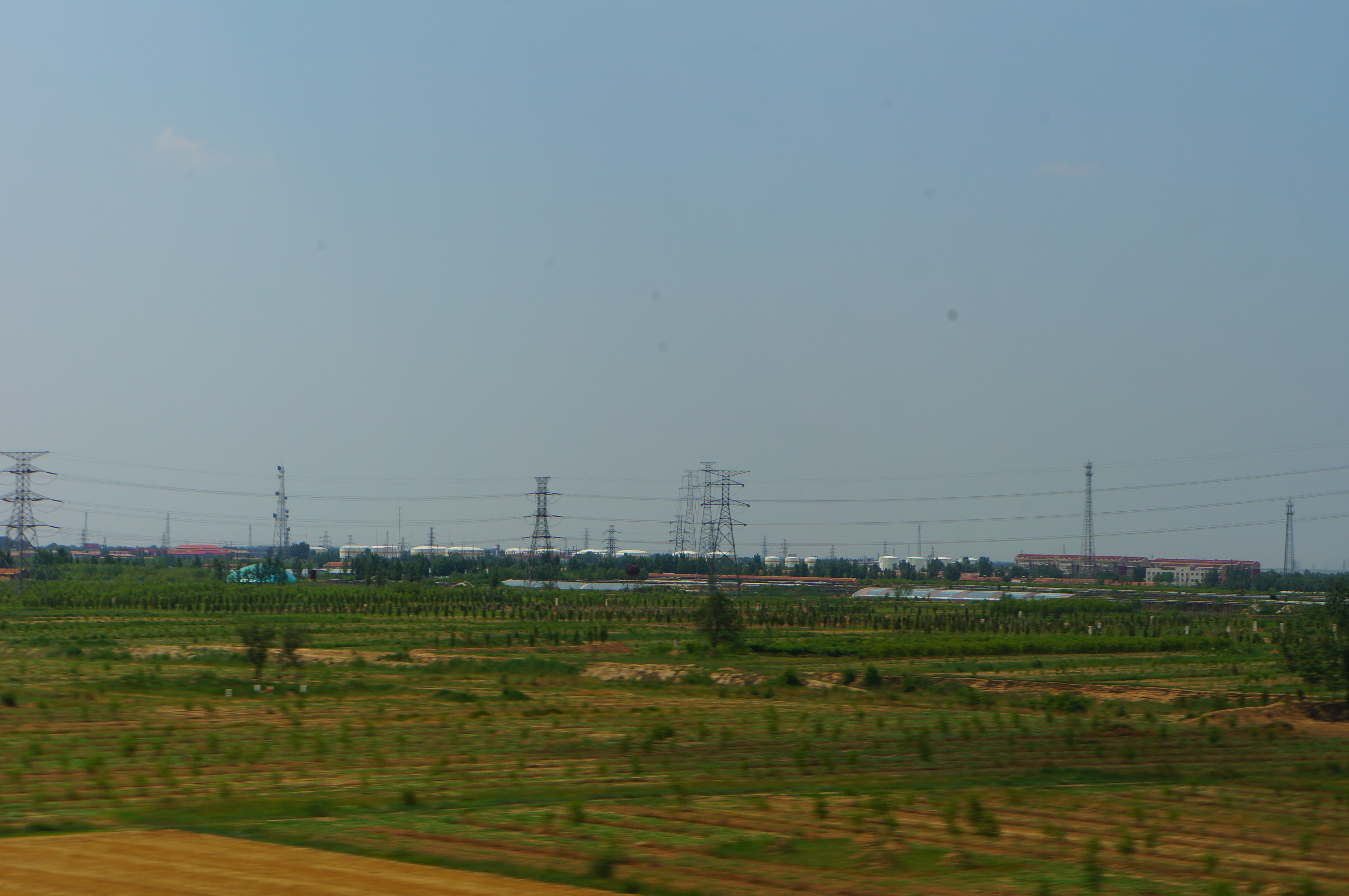 Taken from Beijing-Shanghai HSR